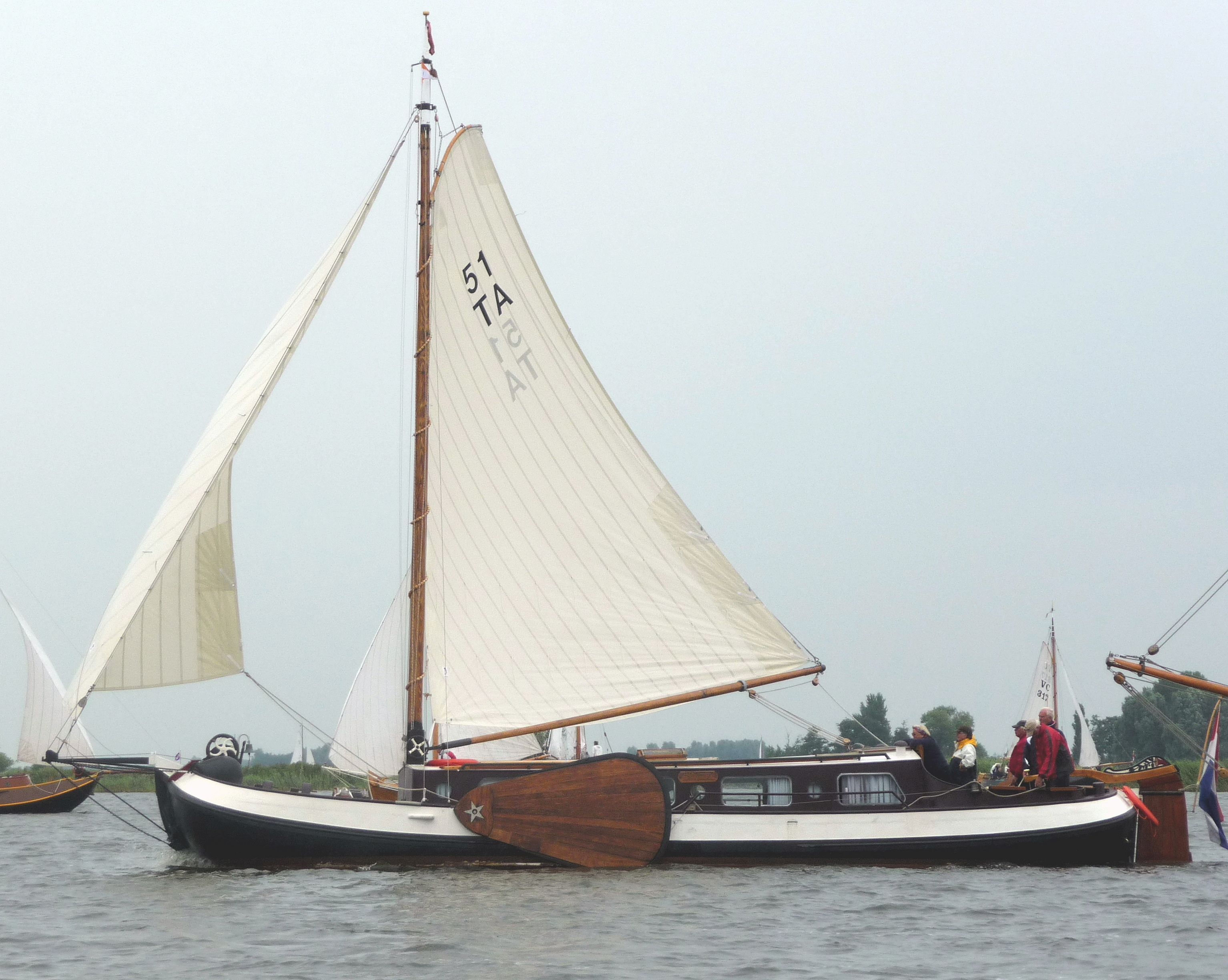 The Tjalk Suez (TA51). The photo was shot during the admiraalzeilen at the VSRP 2010 reunion. SSRP entry for Suez (TA51)]